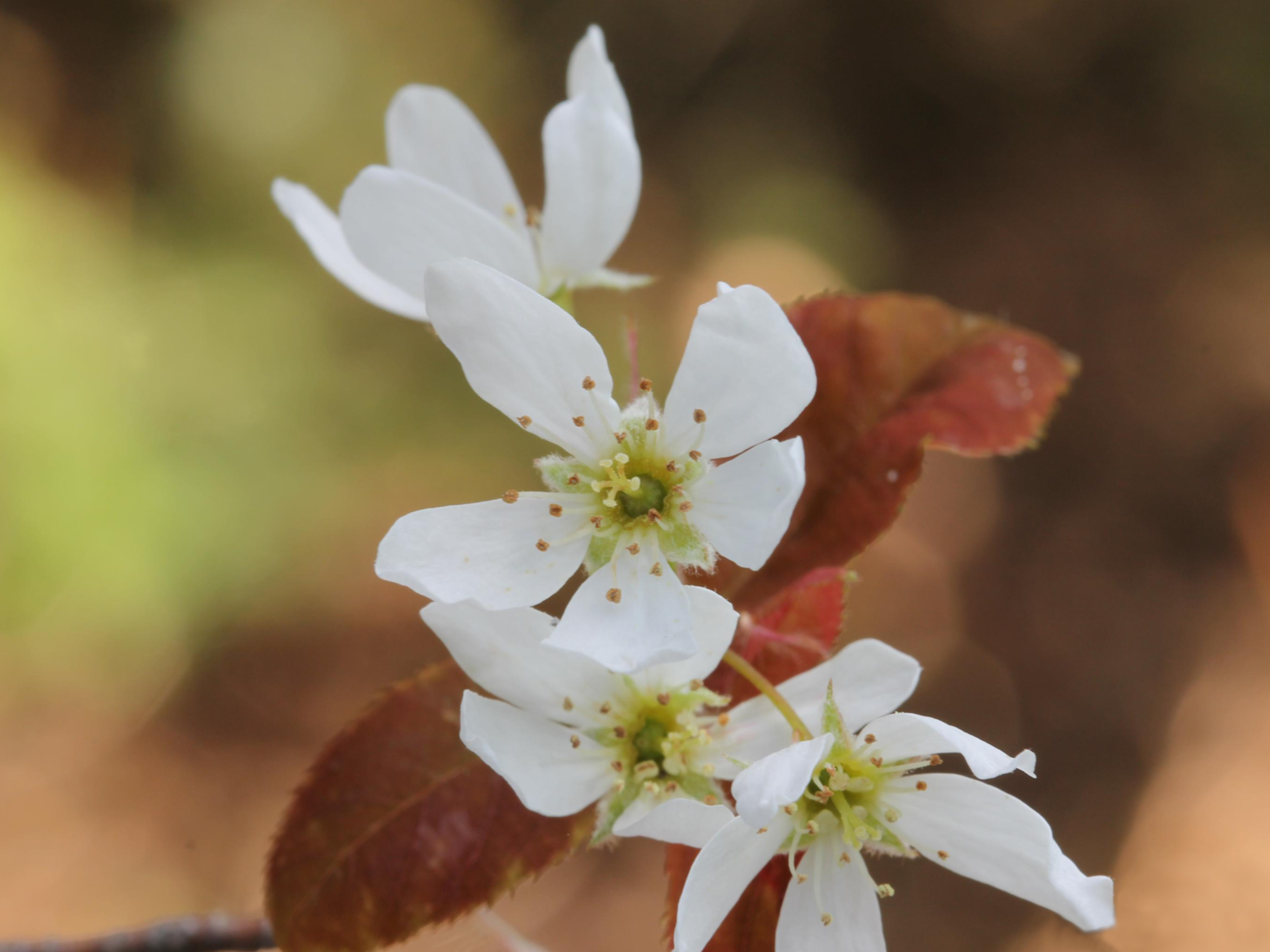 Amelanchier laevis